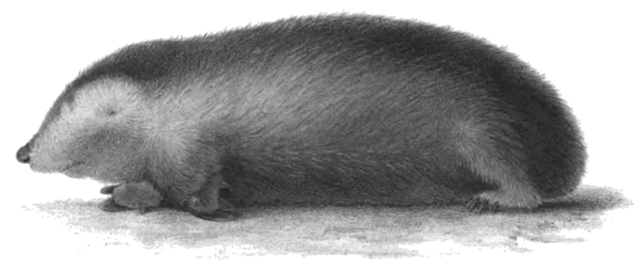 Drawing of Calcochloris obtusirostris, printed in Wilhelm Peters: Naturwissenschaftliche Reise nach Mossambique: auf Befehl seiner Majestät des Königs Friedrich Wilhelm IV in den Jahren 1842 bis 1848 ausgeführt. Berlin, 1852, pp. 1–205 (pl. 18)